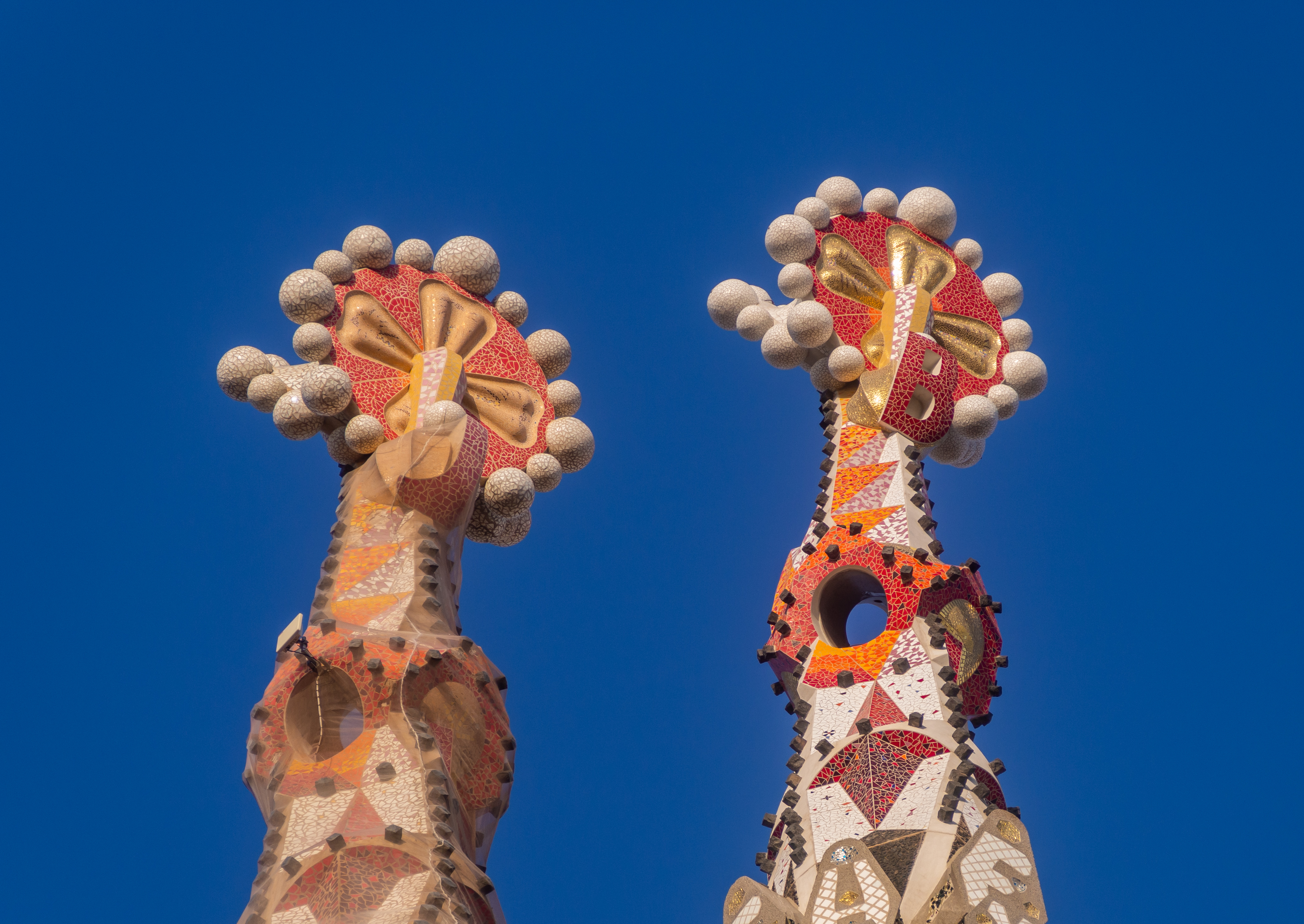 The pinnacles of the towers in Passion Facade, Sagrada Familia.